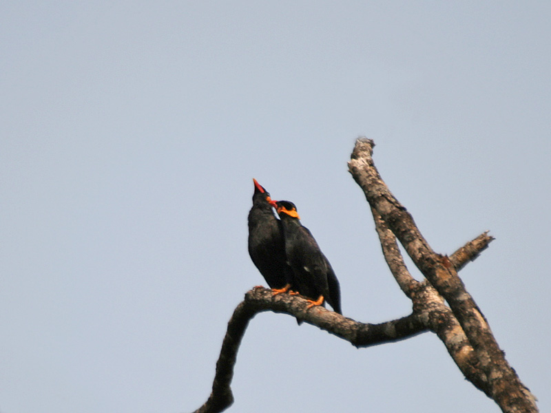 Common Hill Myna Gracula religiosa at Jayanti in Buxa Tiger Reserve in Jalpaiguri district of West Bengal, India.